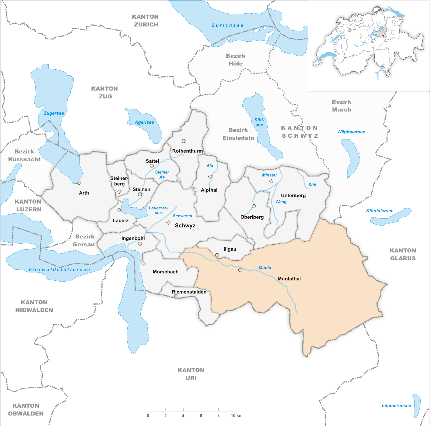 Municipality Muotathal